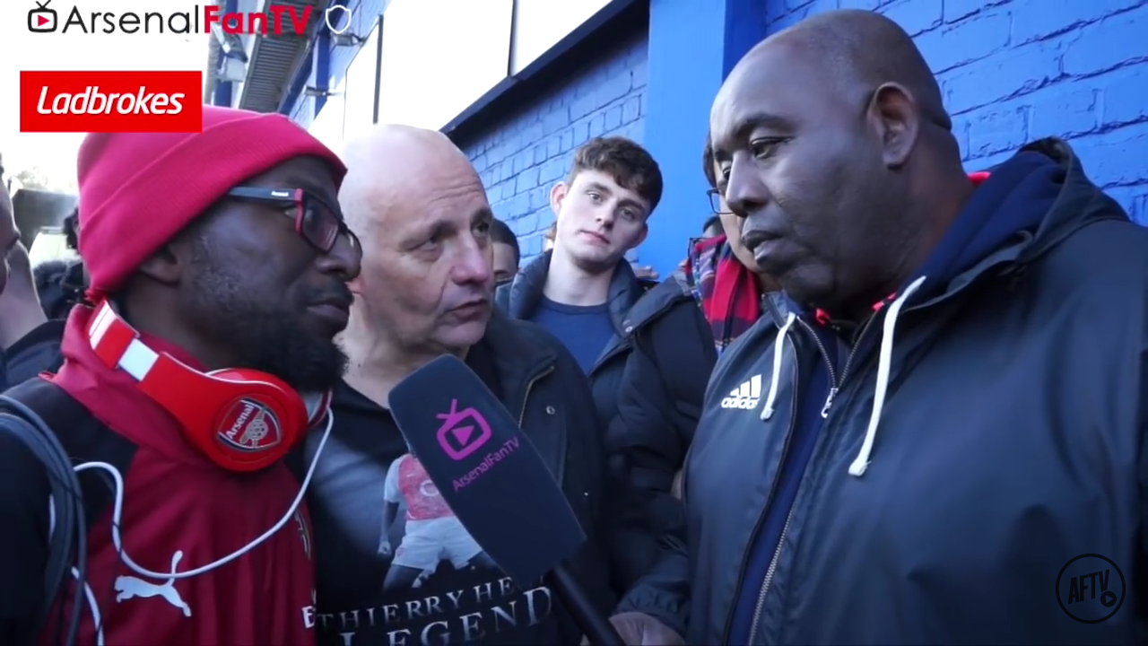 AFTV regulars Ty, Claude and Robbie Lyle after a match in 2017